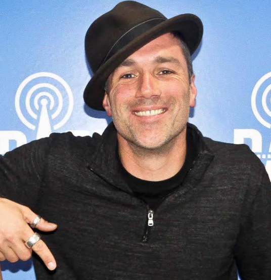 Dylan Berry: musician, composer, radio host, media entrepreneur